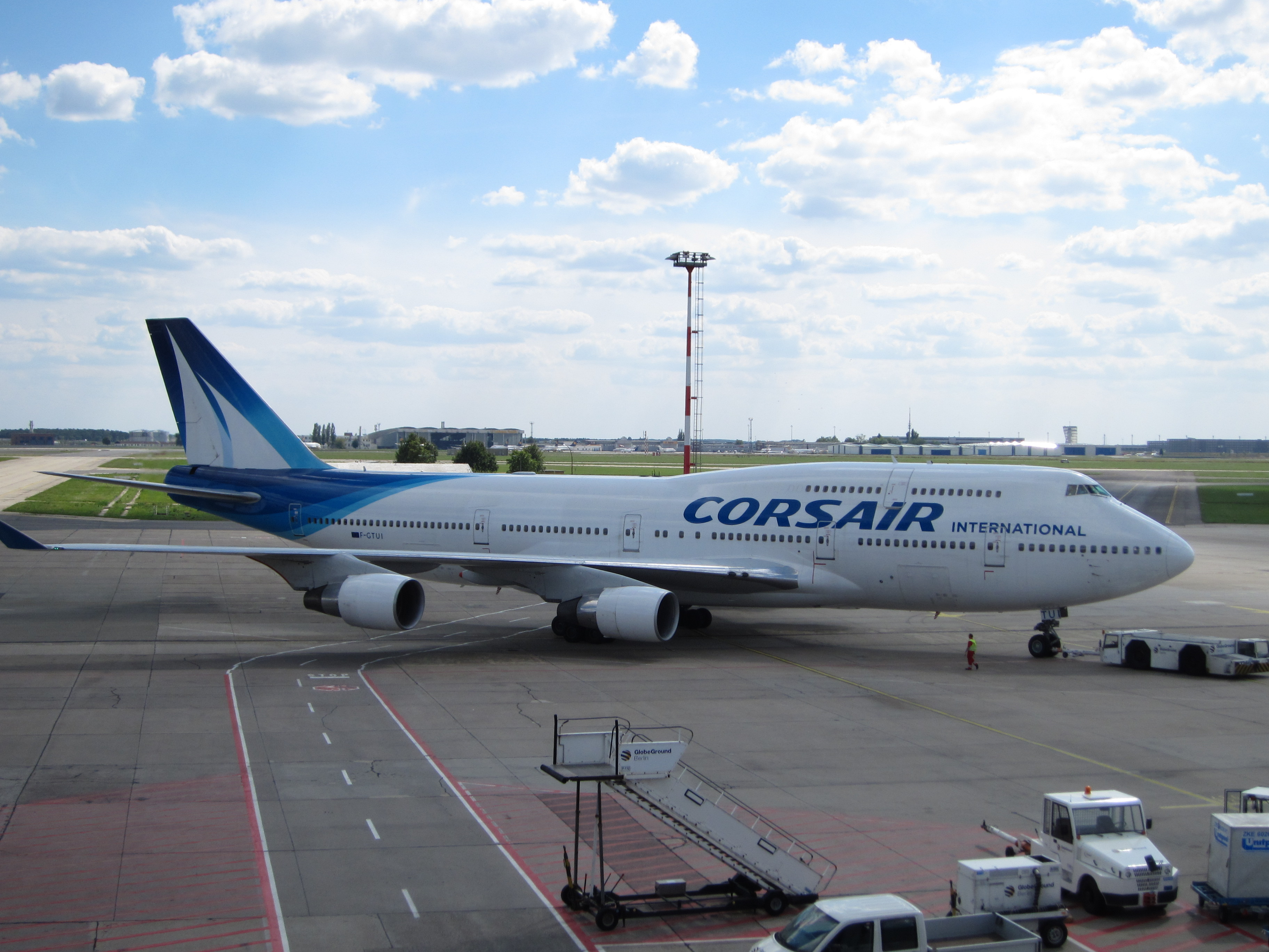 Corsair International aircraft F-GTUI of type Boeing 747-422 at Berlin Schoenefeld Airport heading for positioning flight SS017 to Paris-Orly.